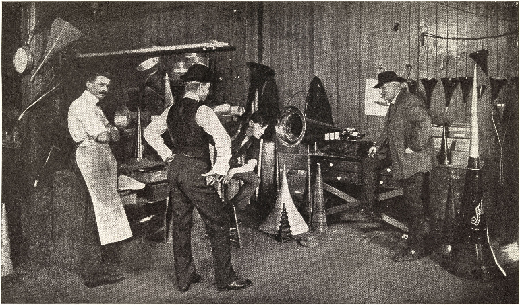 From the Thomas Edison Historical Park website: "Theo Wangemann (right), phonograph playback in Edison Laboratory Music Room, circa May 1905 (From: 'Thomas Alva Edison: 60 years of an inventor's life' [book], by Francis Arthur Jones)"